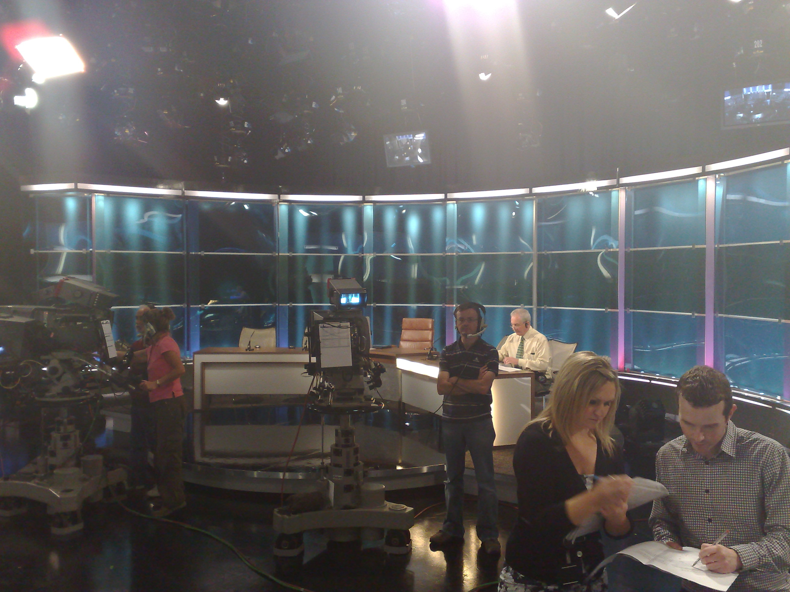 The studio set-up for The Frontline (Irish TV series)